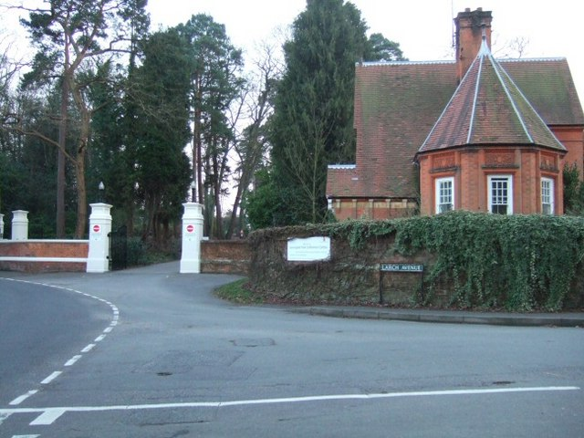 Lodge at Northcote House. The main house, Northcote House, is a listed neo-Georgian mansion. Now known as Sunningdale Park, and used for conferences and management training.